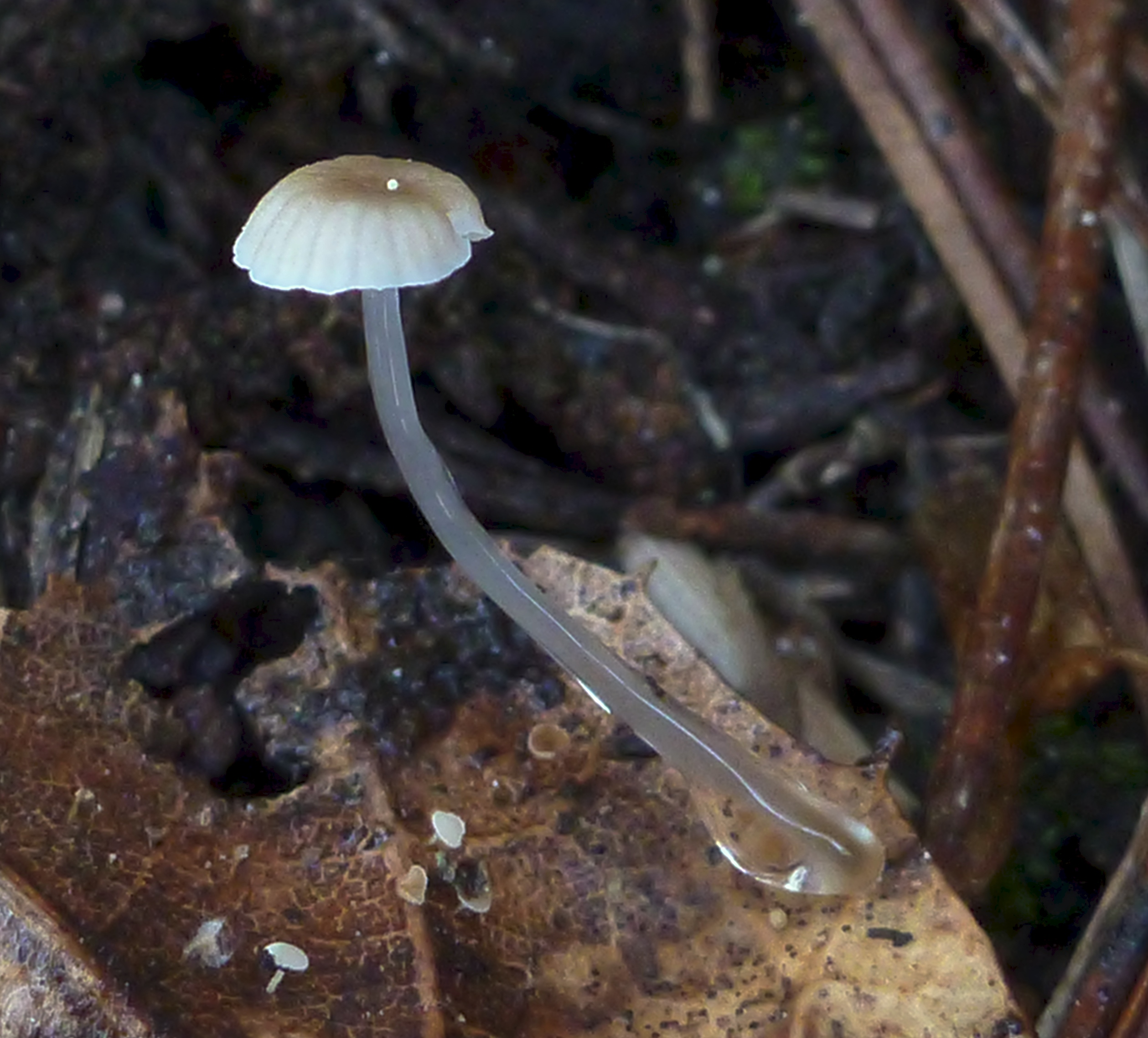 A fruit body of the agaric fungus Roridomyces roridus (formerly Mycena). Photographed in San Simeon State Park, San Luis Obispo Co., California, USA.